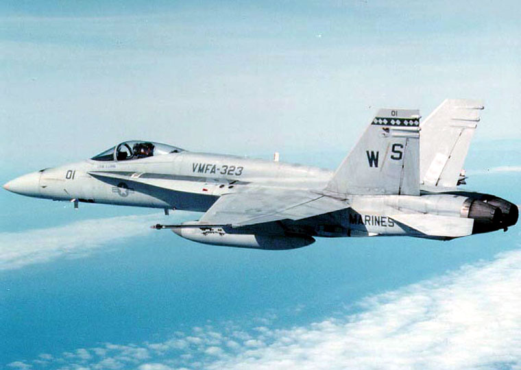 A U.S. Marine Corps McDonnell Douglas F/A-18A Hornet from Marine fighter-bomber squadron VMFA-323 Death Rattlers in flight, in the 1980s.